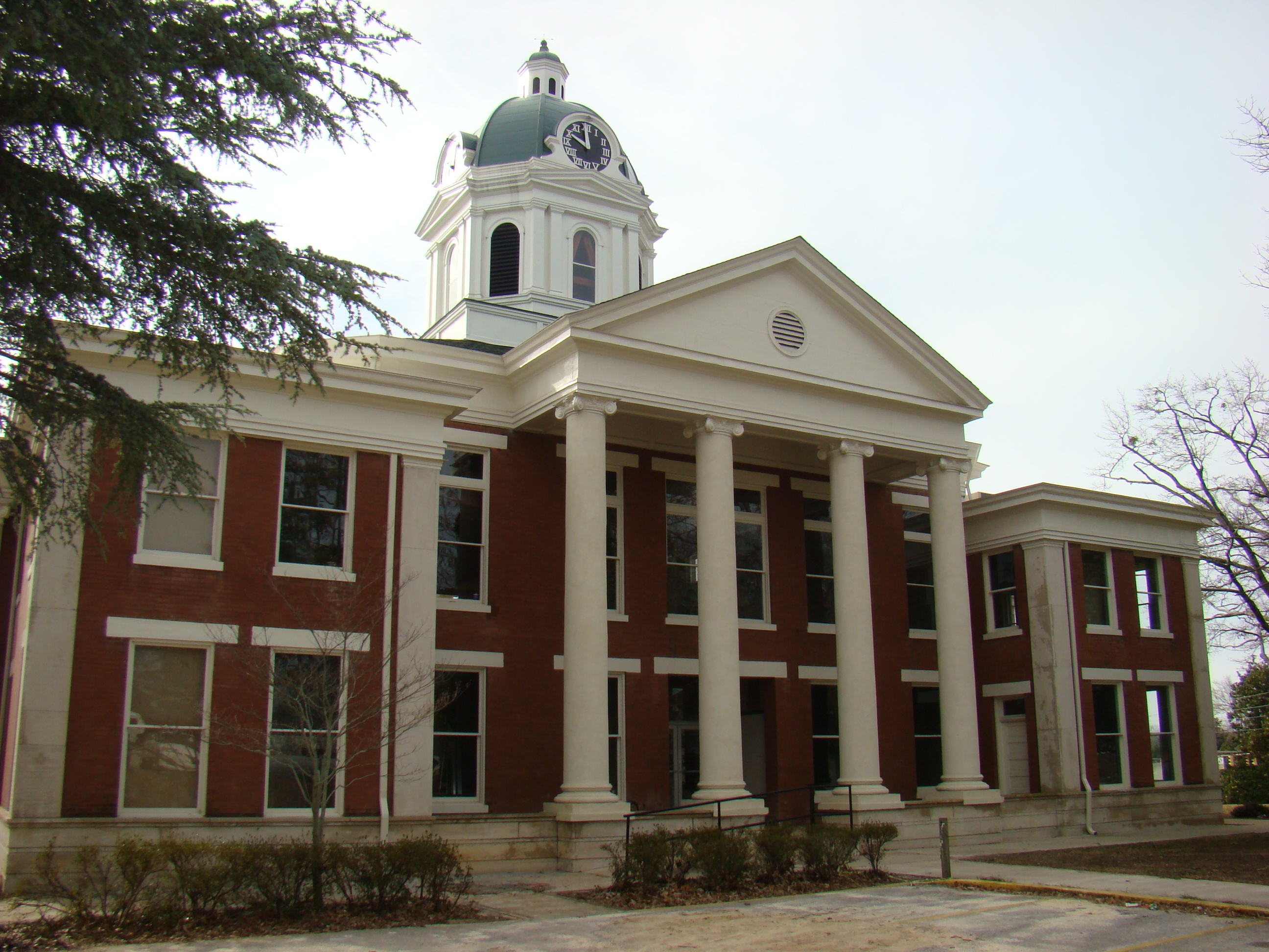 Stephens County, Georgia courthouse located in Toccoa, Georgia.